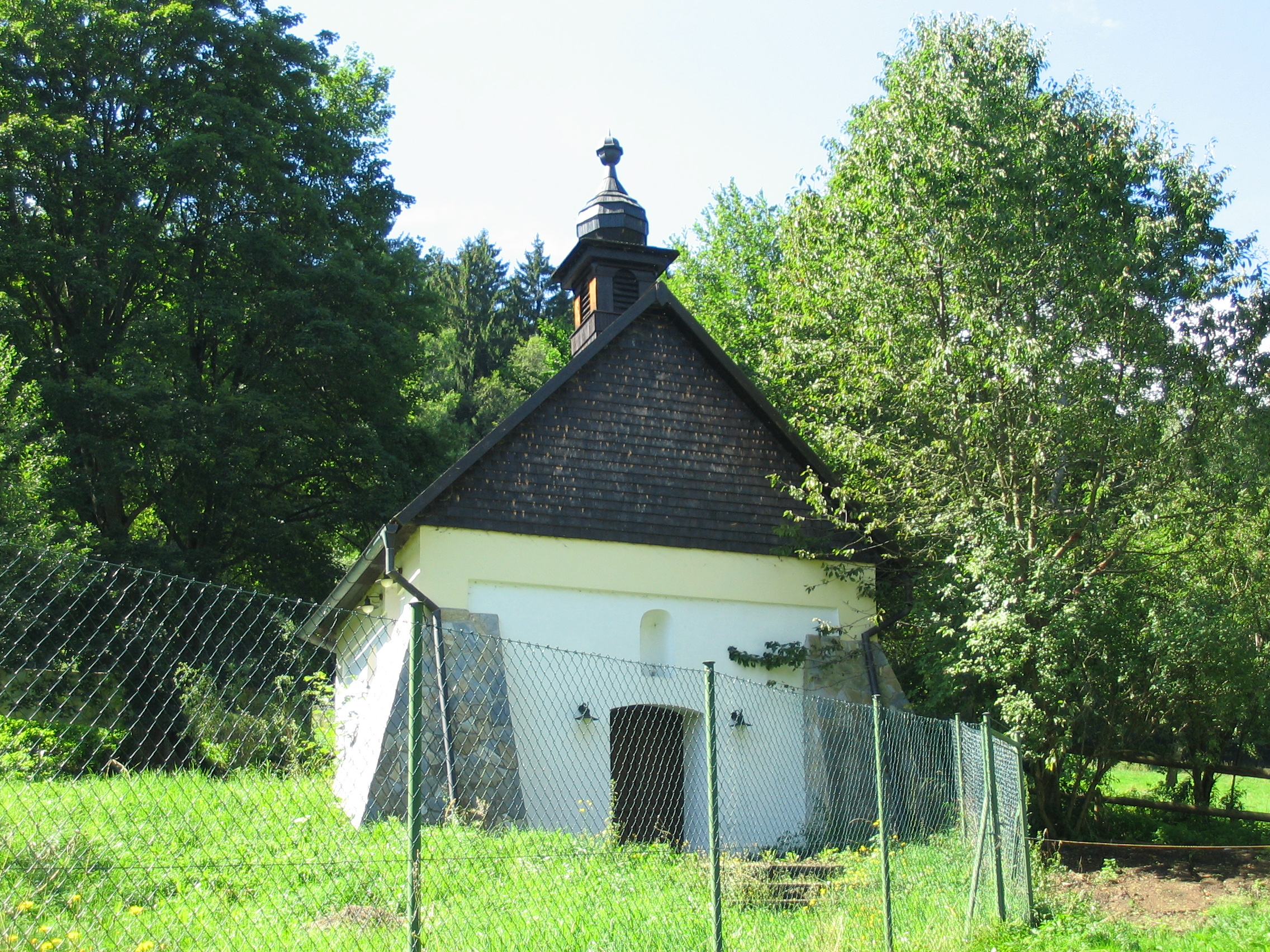 Chapel in Podlesí near Kašperské Hory, Klatovy District, Czech Republic